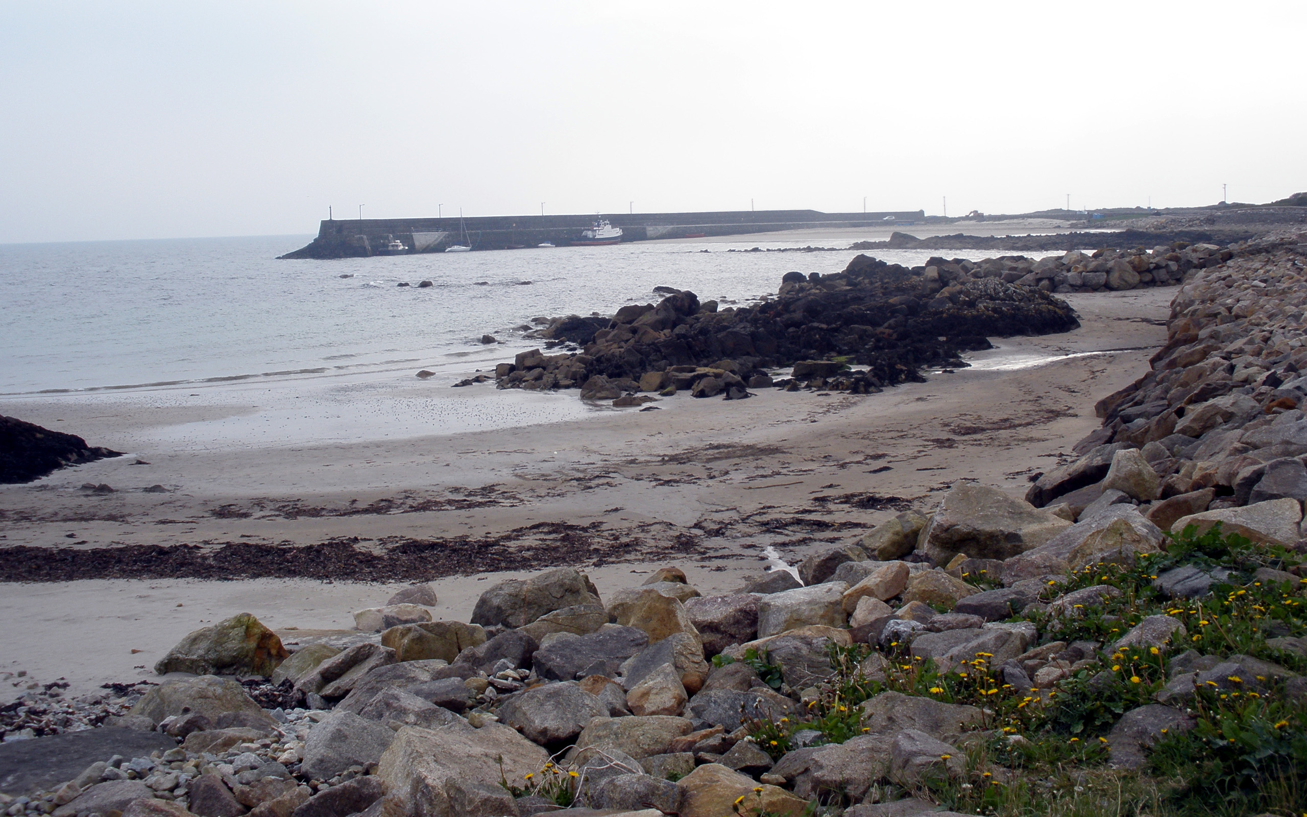 The pier at Spiddal, County Galway, Ireland.